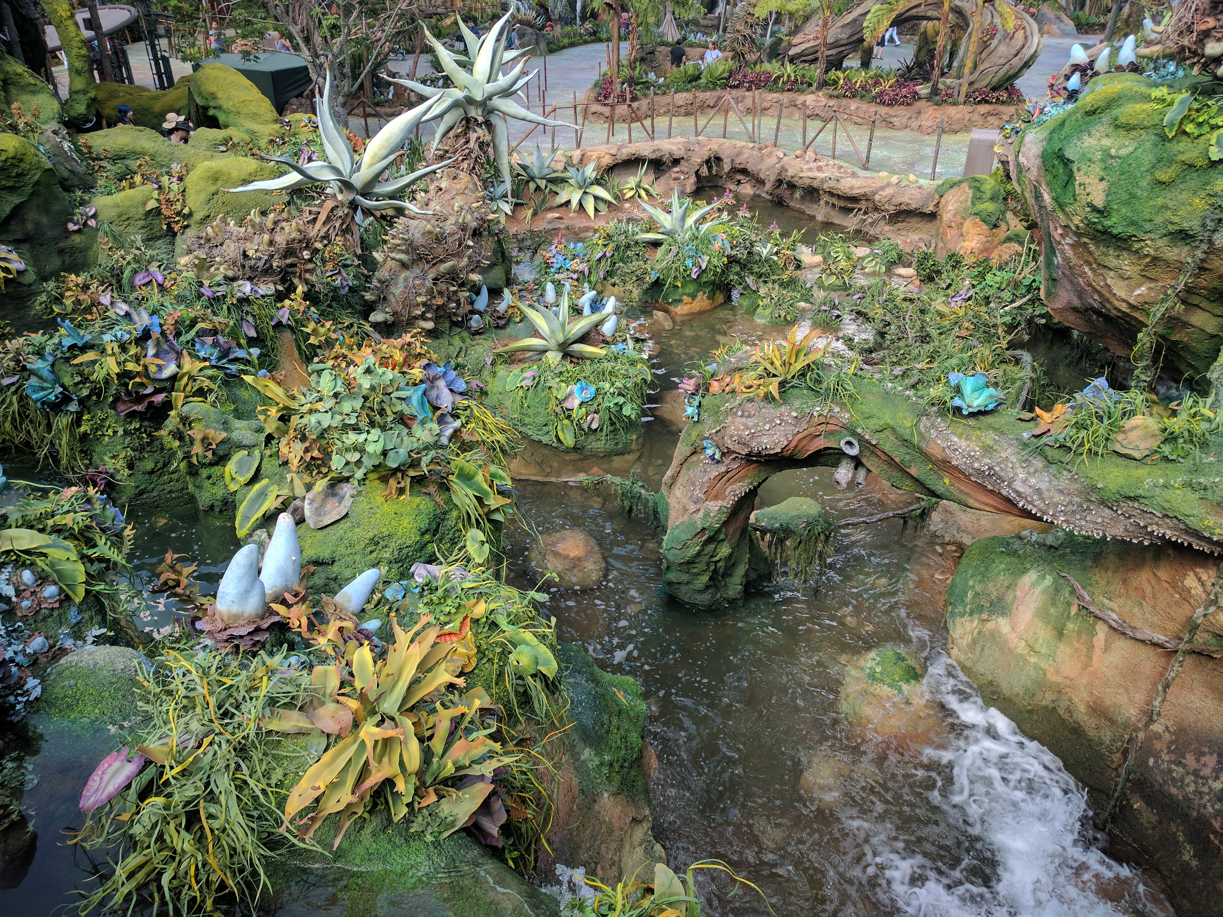 Annual Passholder Preview of Pandora